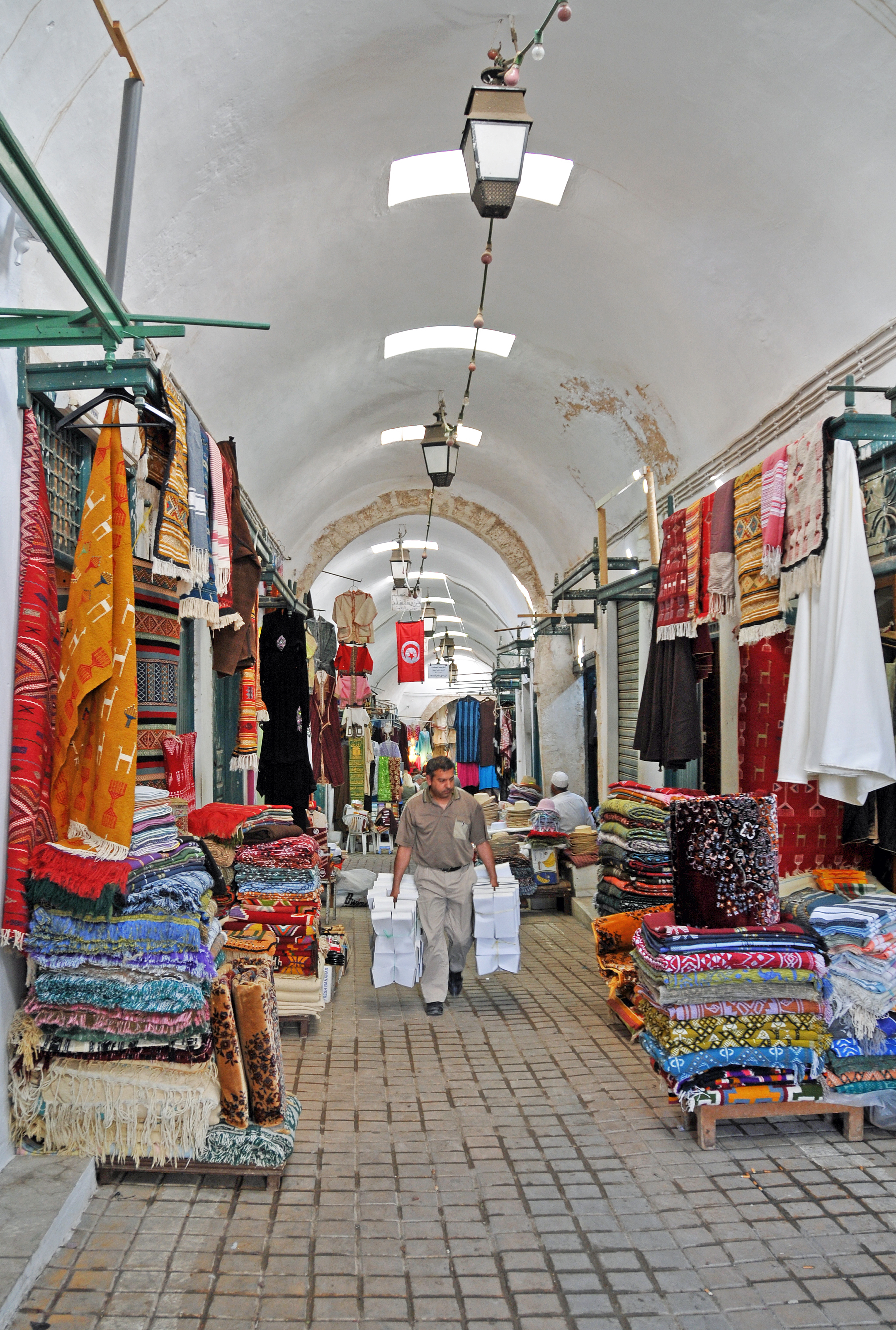 Souqs at the medina of Sfax